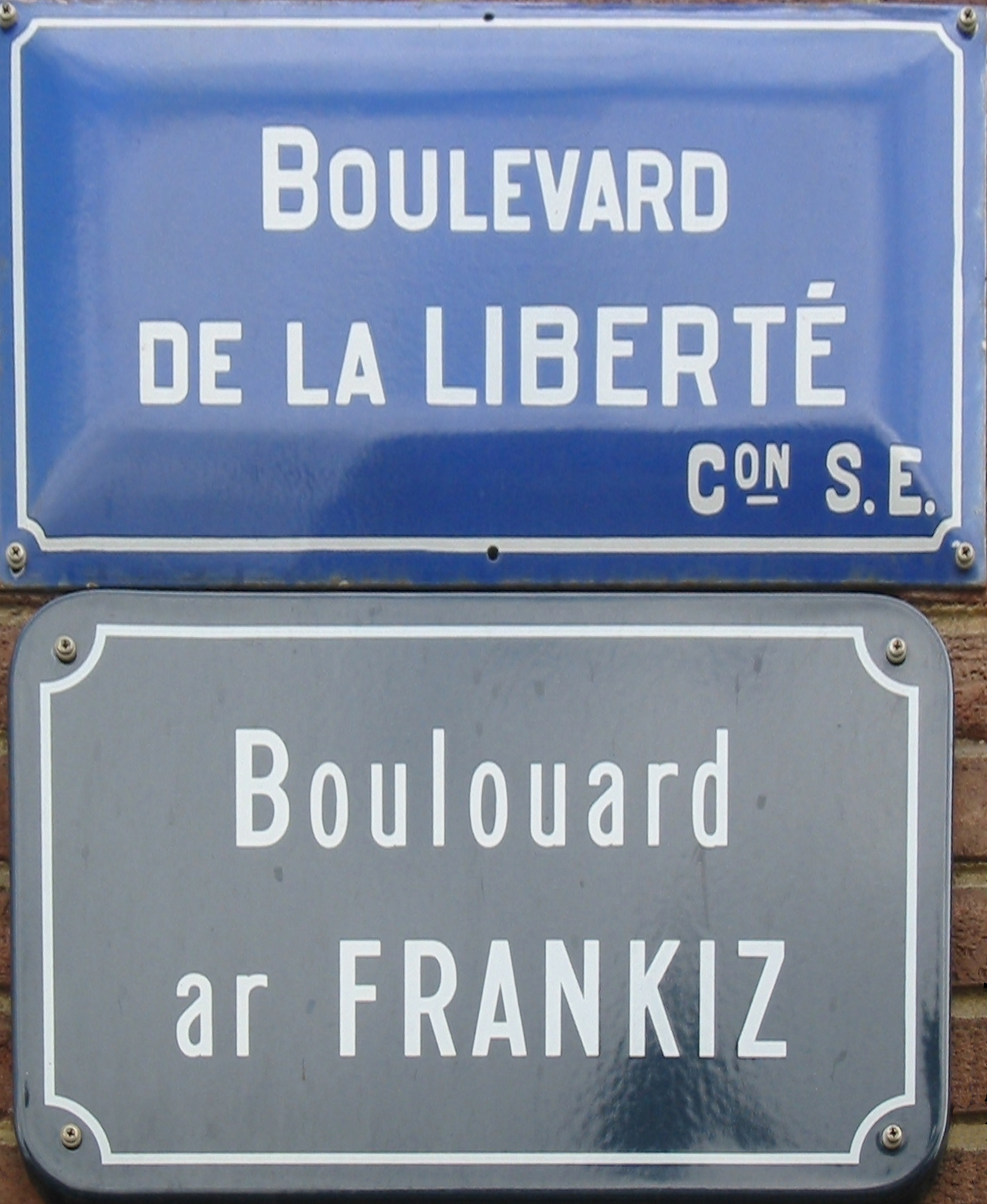 Bilingual street sign, Rennes